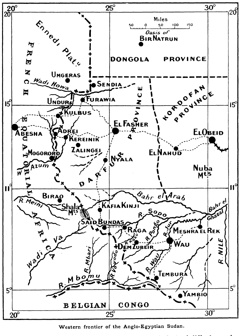 Sketch of border delimination between the French and British along the Nile-Congo Watershed